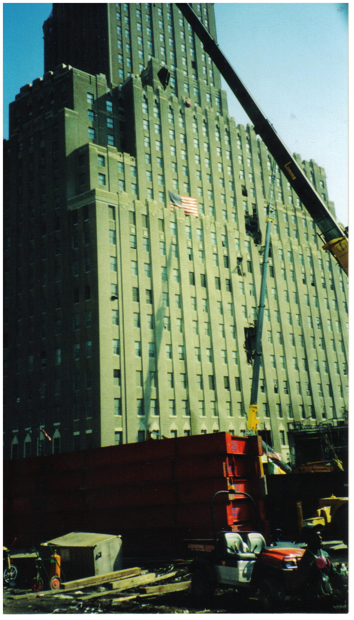 A close view of the damage to the Verizon Building caused by airplane debris from the World Trade Center attacks. Taken by me in October, 2001.